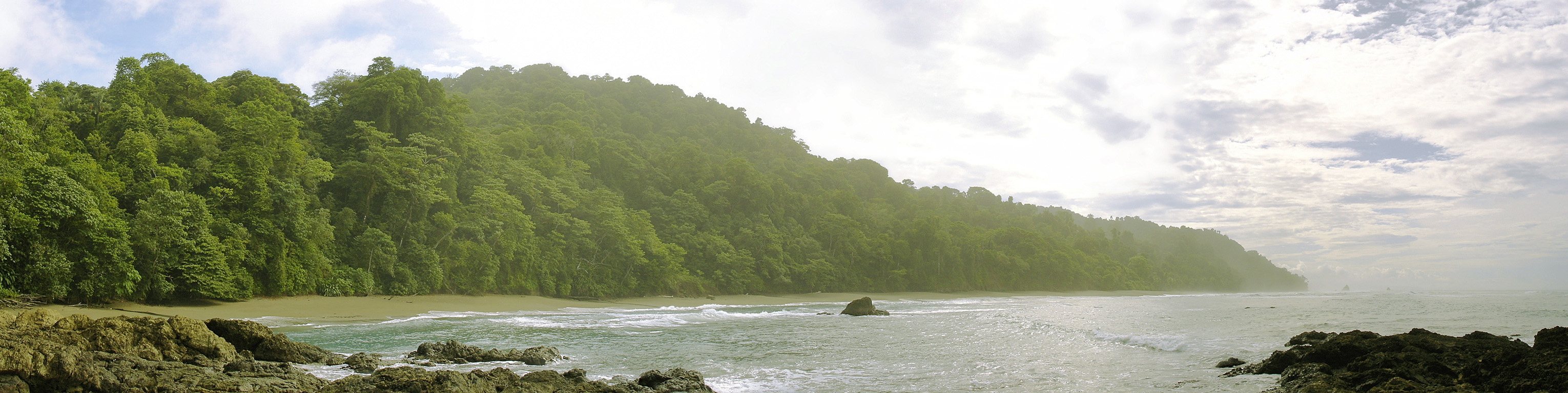 Corcovado National Park coast between Sirena and La Leona ranger stations.